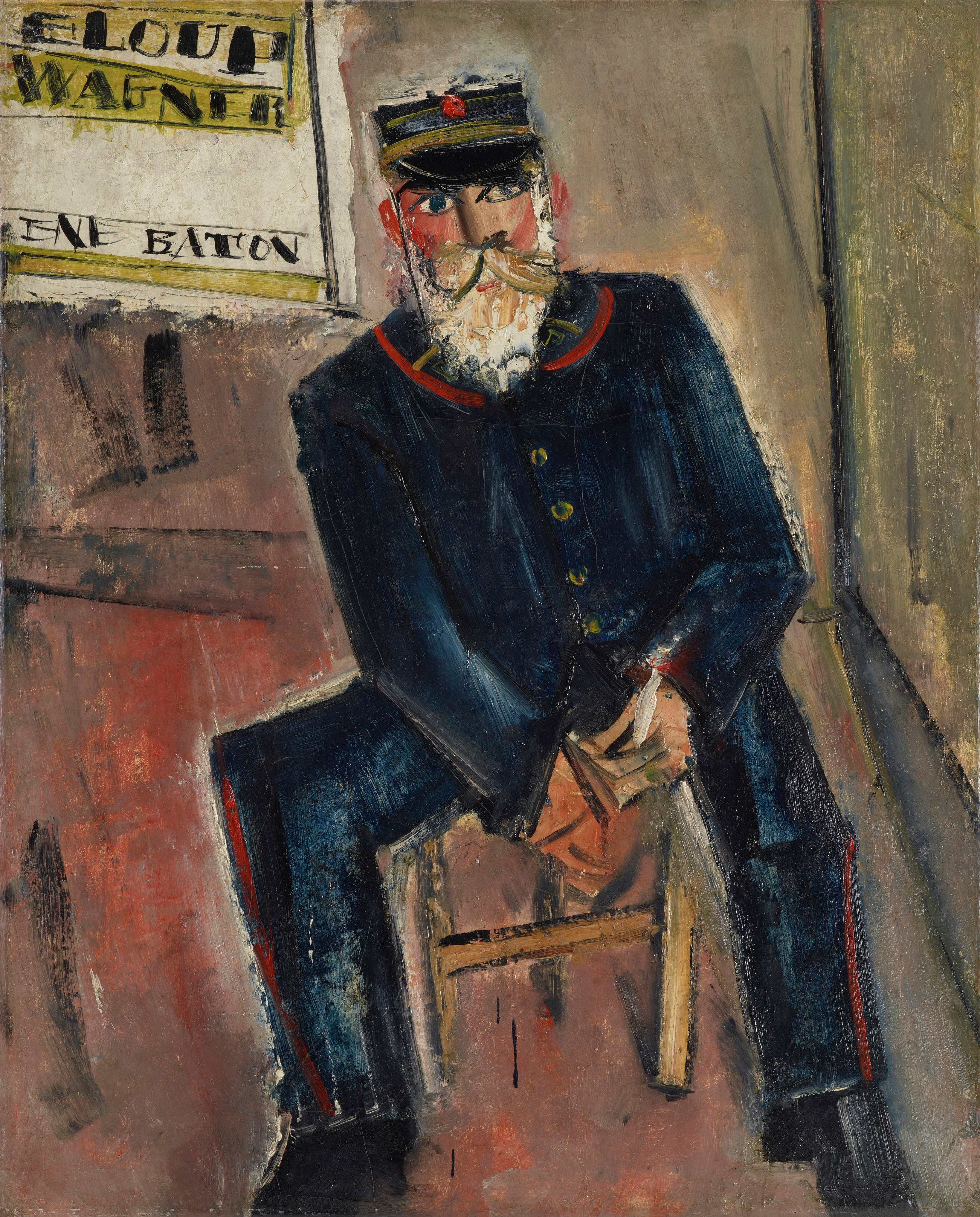 Postman, by Saeki Yuzo, Osaka City Museum of Fine Arts, Osaka, Osaka, Japan